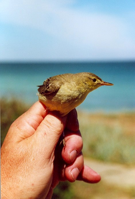 A paddyfied warbler Acrocephalus agricola at the Black Sea, Bulgaria. They are rare vagrants to Europe.